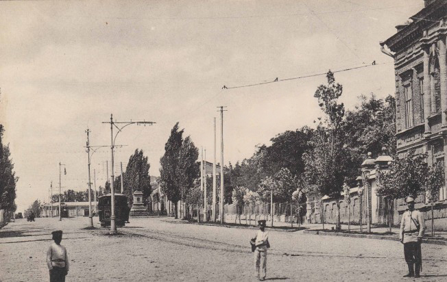 Nakhchivan on postcard